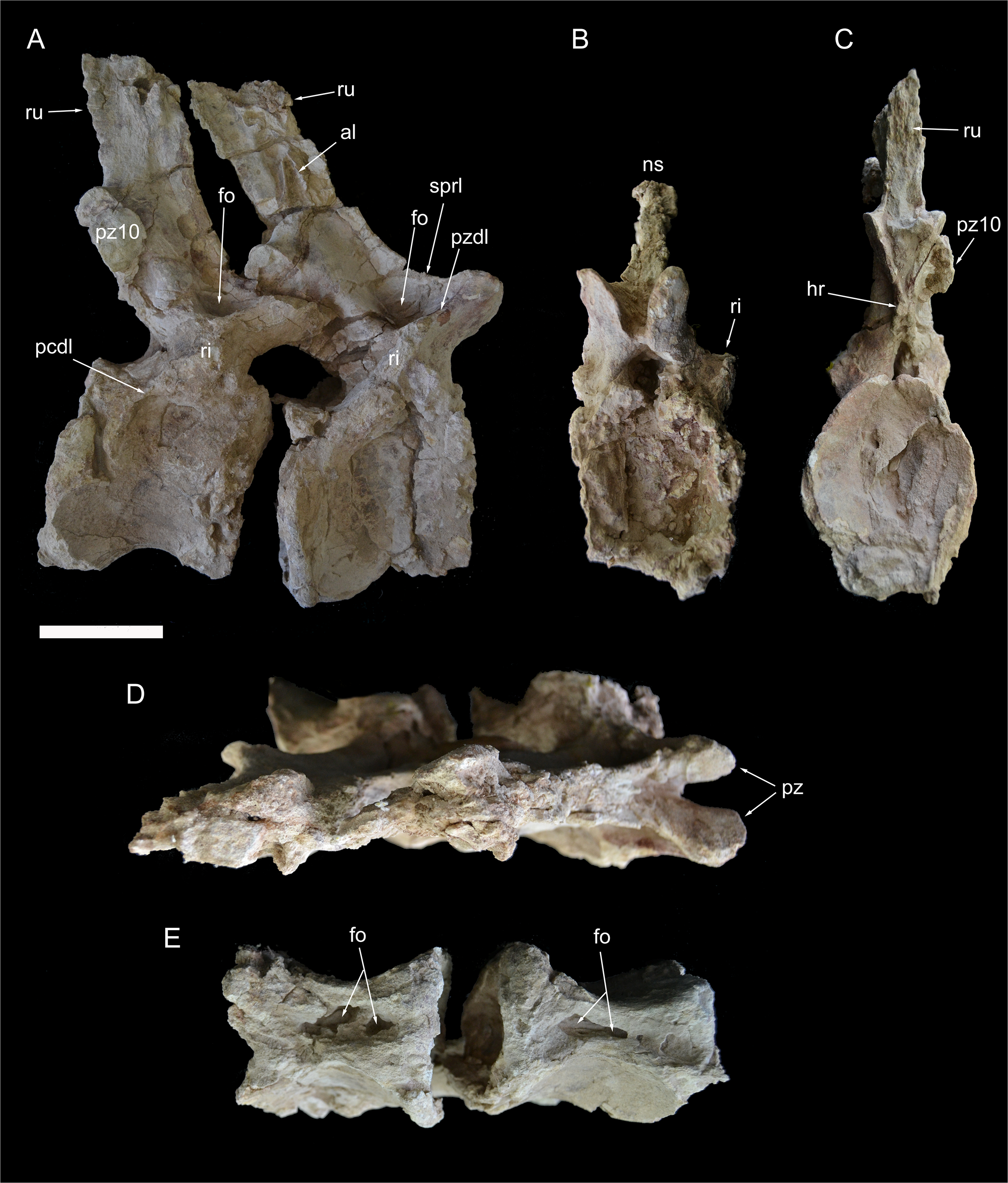 Caudal vertebrae 8 and 9 of Tataouinea hannibalis. Vertebrae in right lateral (A), proximal (B), distal (C), dorsal (D) and ventral (E) views. Scale bar: 10 cm. Abbreviations: al, accessory laminae; fo, fossa; hr, hyposphenal ridge; ns, neural spine; pcdl, posterior centrodiapophyseal lamina; pz, prezygapophysis; pz10, fragment of caudal 10 right prezygapophysis; pzdl, prezygodiapophyseal lamina; ri, ribs; ru, interspinal rugosity; sprl, spinoprezygapophyseal lamina.